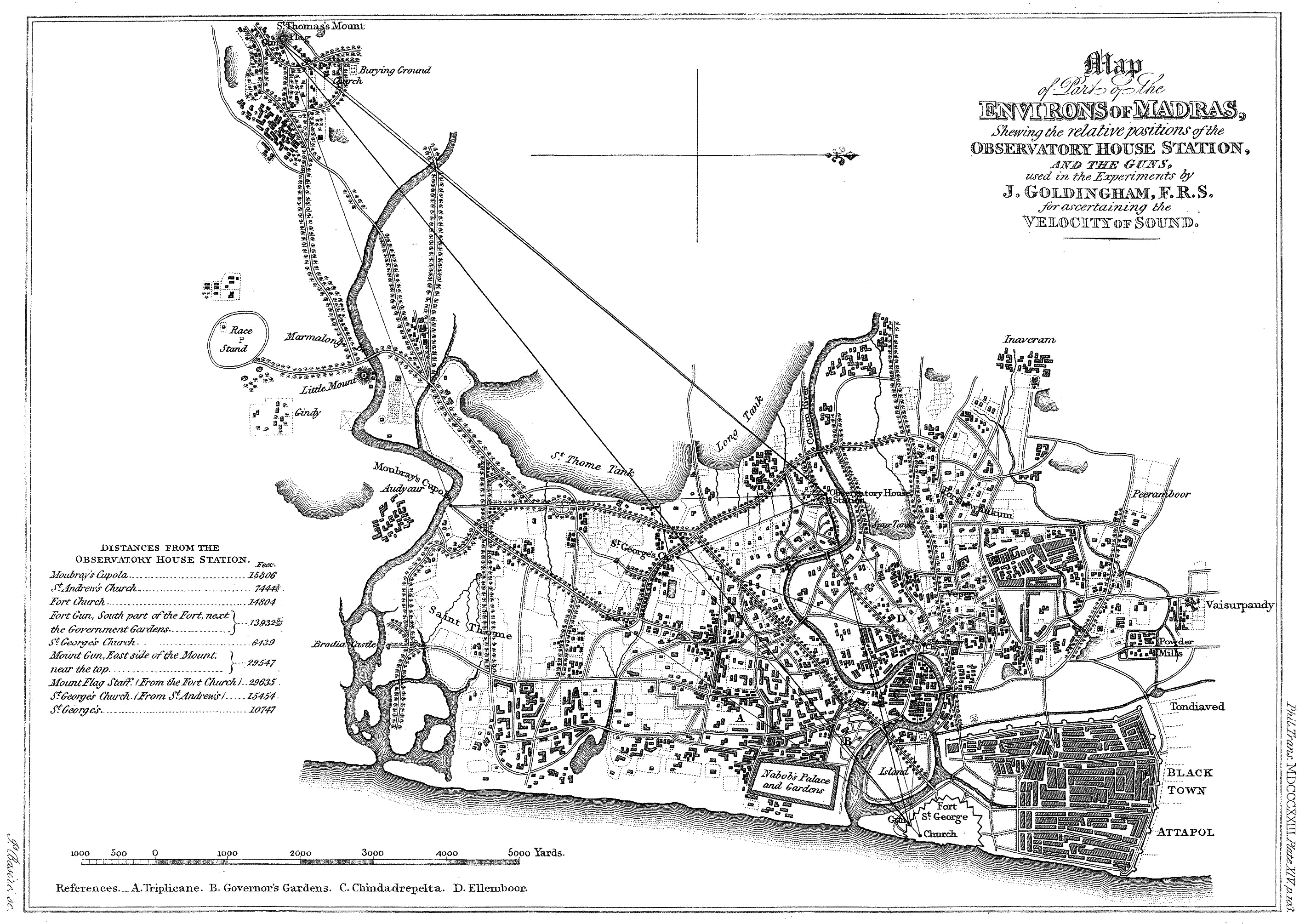 Environs of Madras showing layout of experiment to find velocity of sound